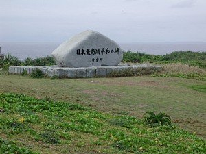 The peace stele of the southest end in Japan